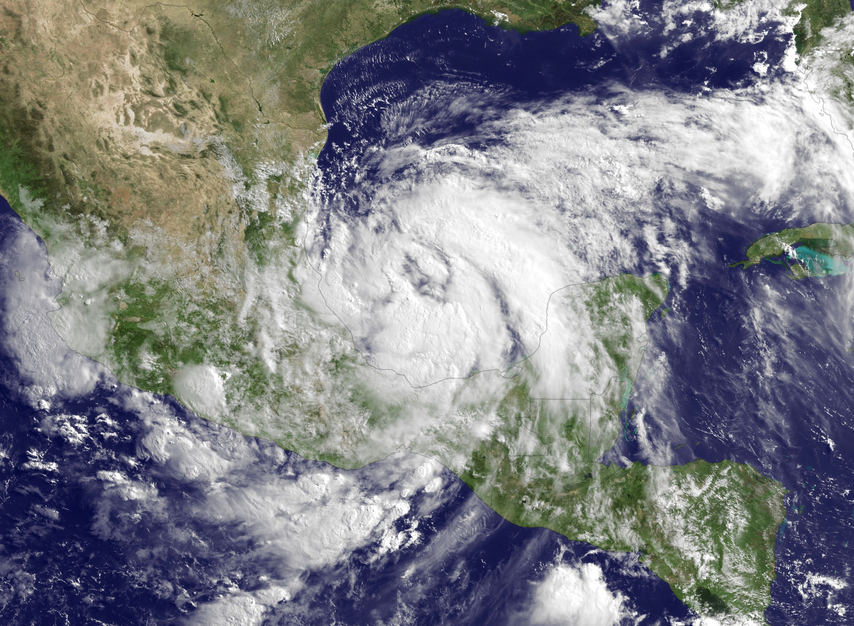 Tropical Storm Arlene First of the 2011 Hurricane Season